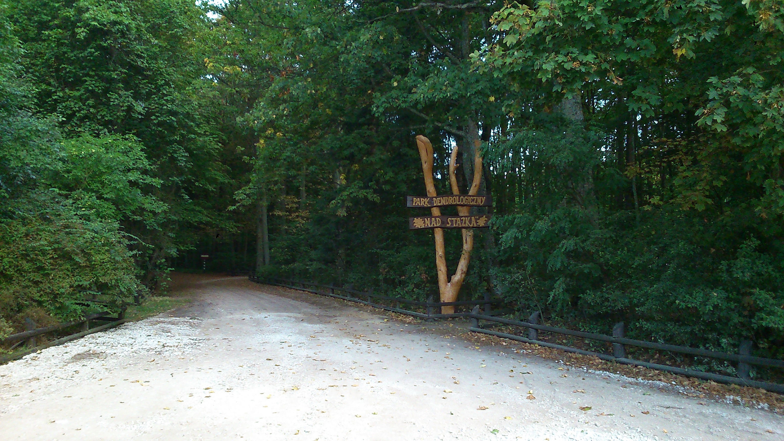 Gołąbek - village in Kuyavian-Pomeranian Voivodeship, Poland. Entance to arboretum.